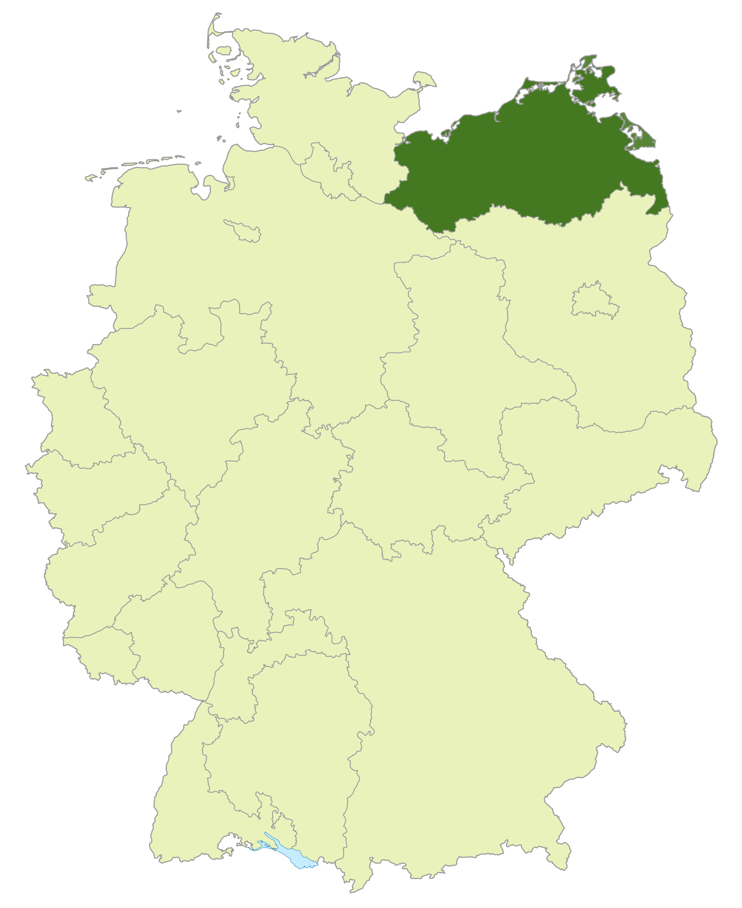 Map of regional soccer association Meckelnburg-Vorpommern, Germany